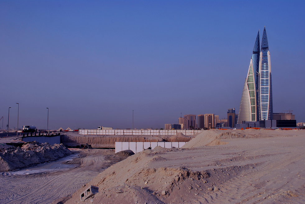 Building tower in Manama, Bahrain.